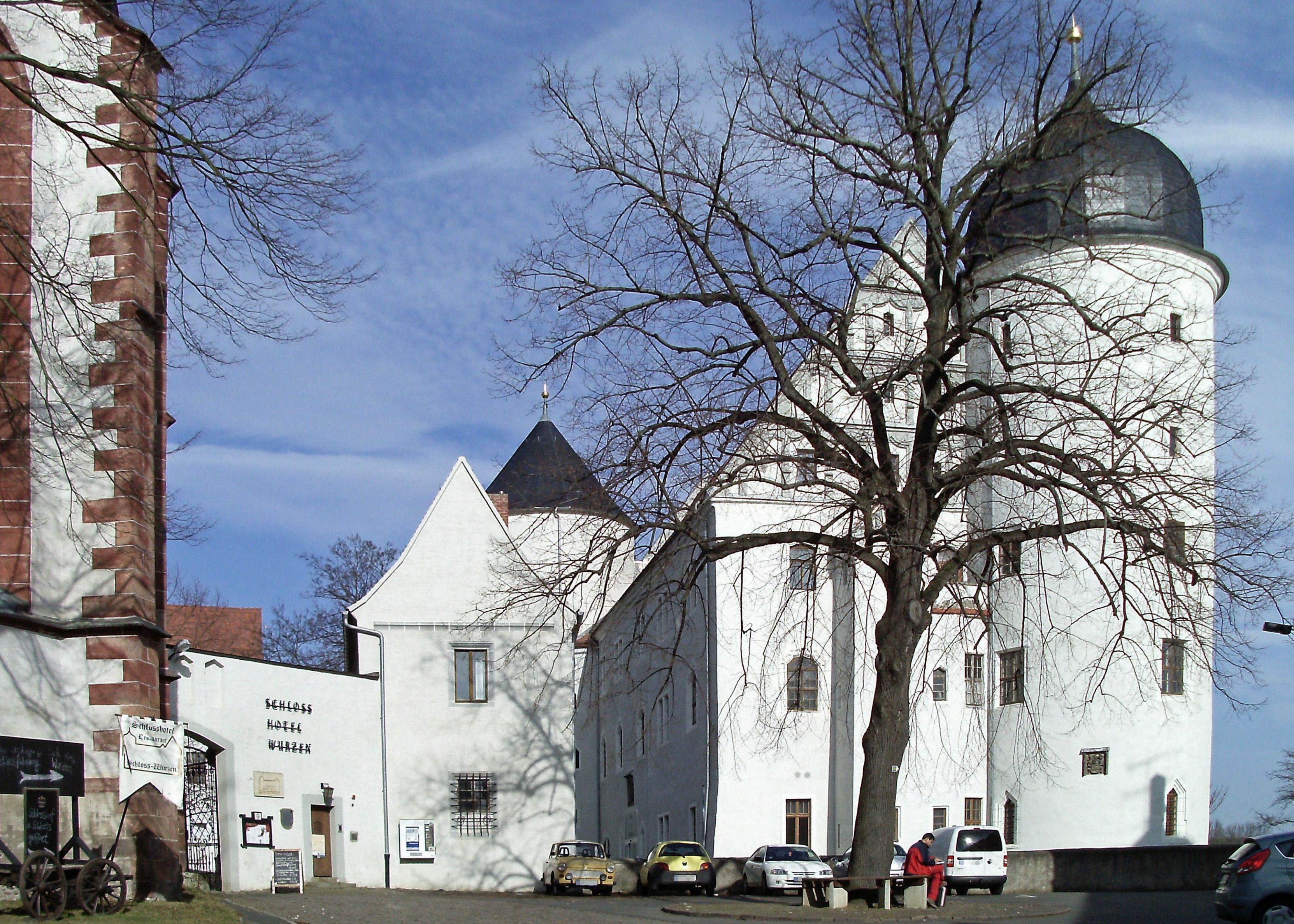 Wurzen Castle (Leipzig district, Saxony)